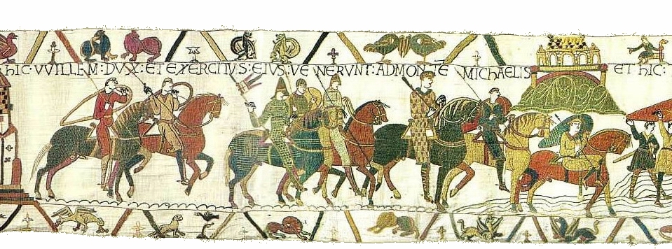 Bayeux Tapestry Scene 16